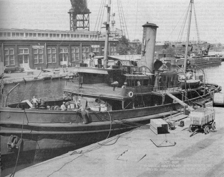 Acushnet (AT-63) at Norfolk Navy Yard, 8 September 1941; the British fleet carrier Illustrious, undergoing repairs looms in the background. Also visible are covered lighter YF-244 and the open lighter YC-265. US National Archives photo # 19-N-25509, a US Navy Bureau of Ships photo now in the collections of the US National Archives.